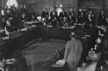 Scene from Japanese newsreel (Tokyo Conference, 1943). Speech by Subhas Chandra Bose.